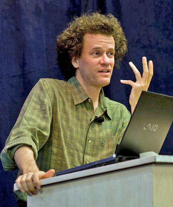 Canadian Booker prize-winning author Yann Martel giving a presentation on Life of Pi (Illustrated Edition) at on October 25, 2007. Original uncropped file